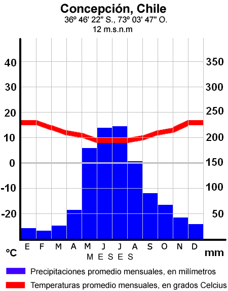 Climate chart of Concepción, Chile.